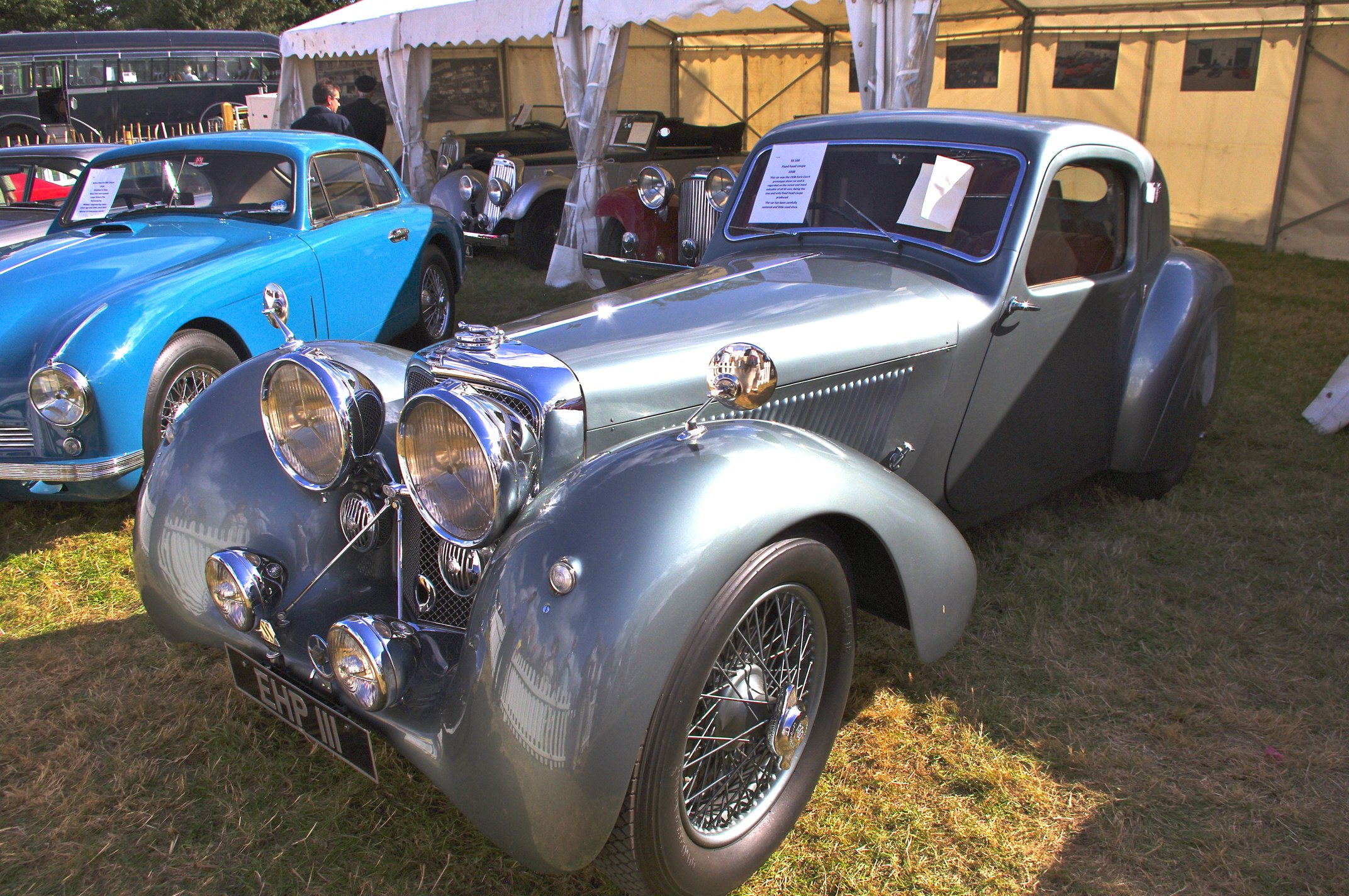 1938 SS 100 fixed head coupé (8089759561).jpg